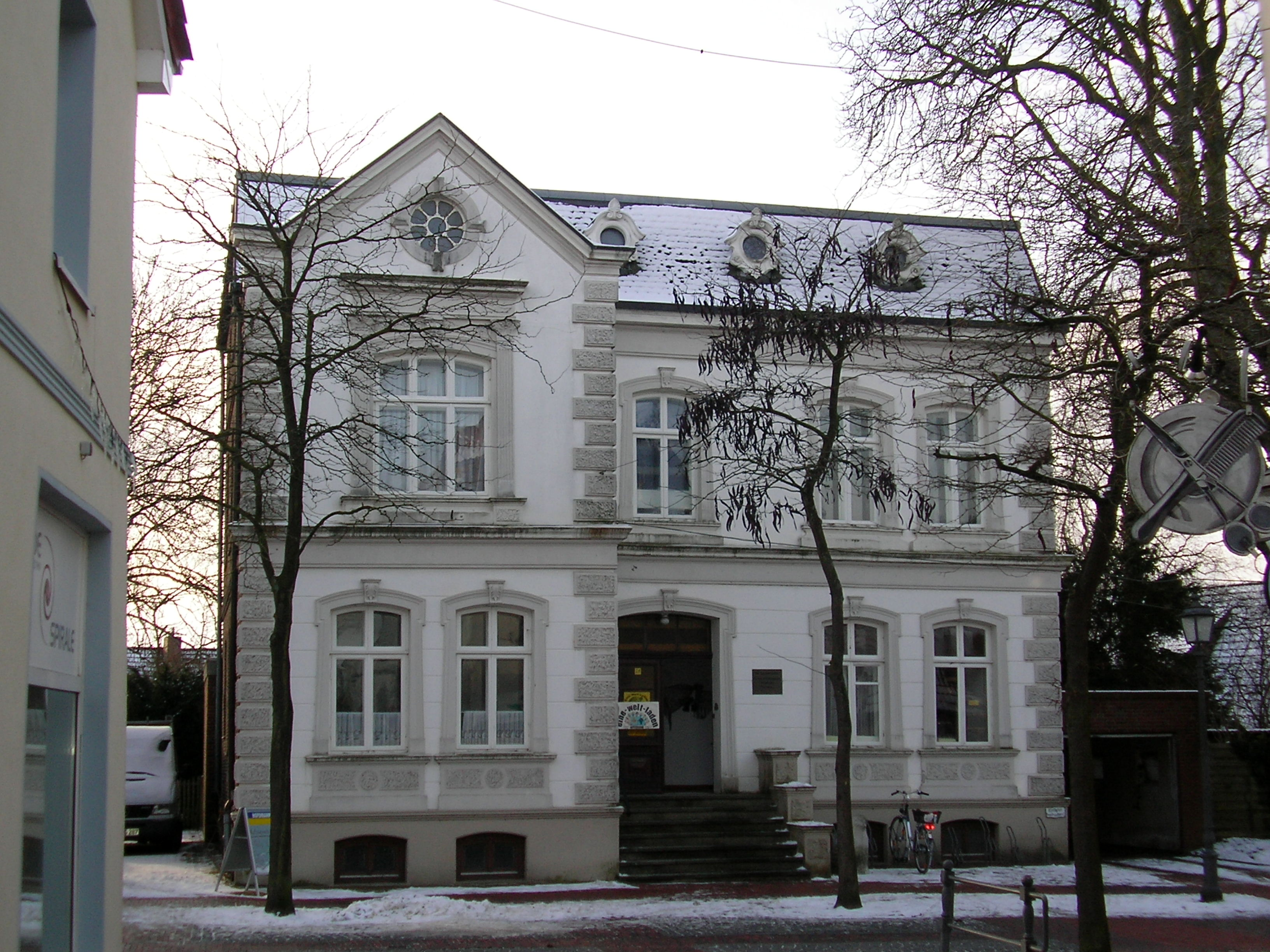 Wittmund, parish house, Drostenstraße 21